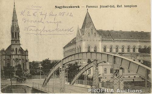 year 1910